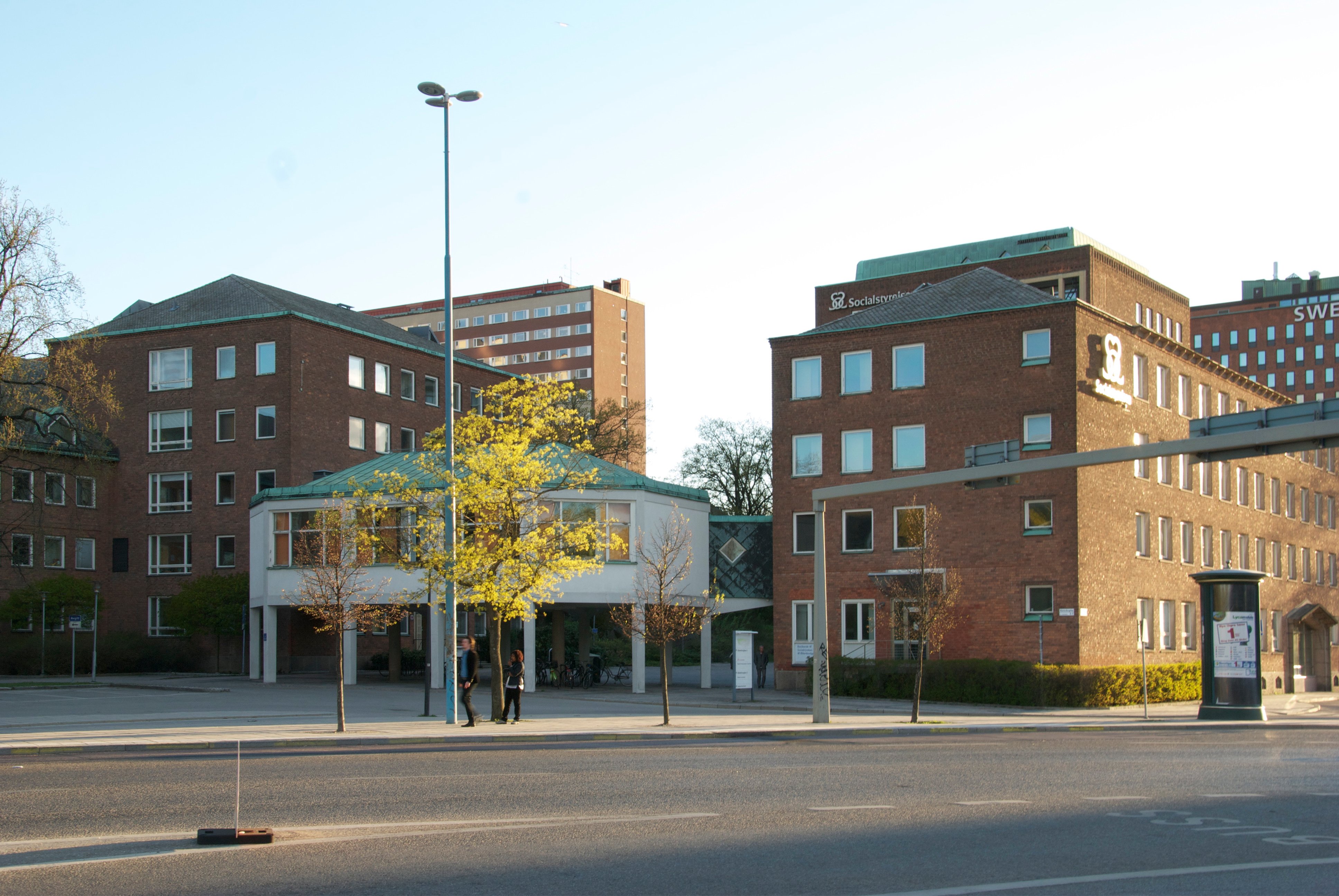 Västerbroplan, april 2011.